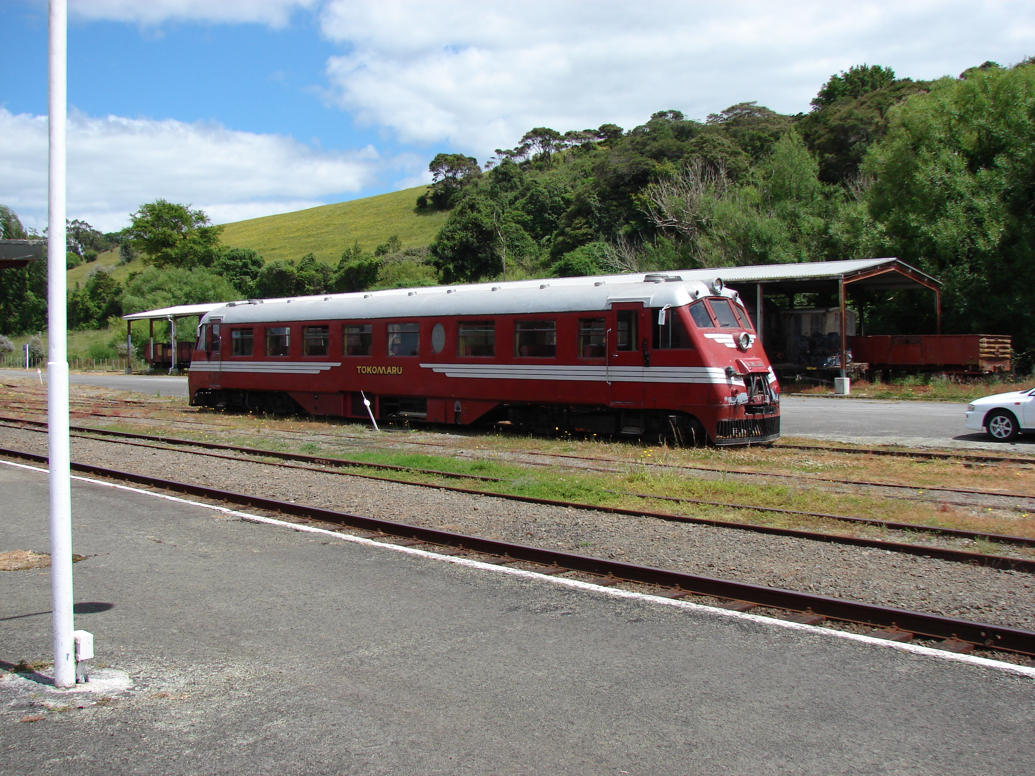 RM 31 (Tokomaru) at the Pahiatua Railcar Society. Photographed by Matthew25187 on 2007-12-16.